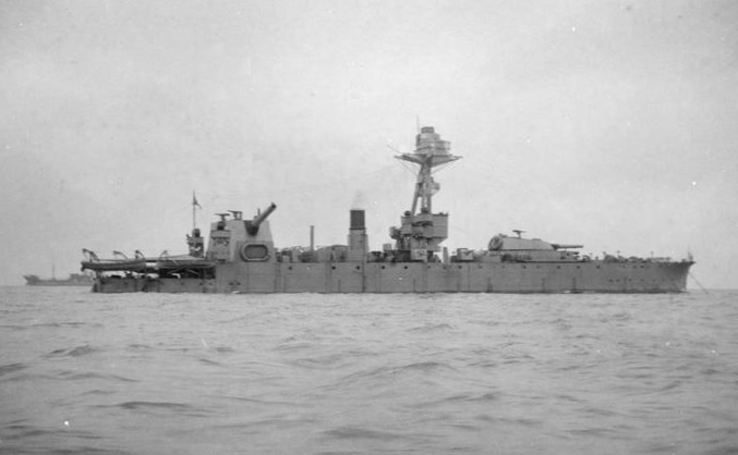 The Surrender of the German High Seas Fleet, November 1918 Royal Navy Monitor HMS LORD CLIVE.